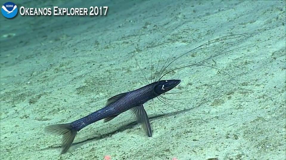 Bathypterois atricolor observed in the abyss by NOAA mission Okeanos Explorer off Samoa islands in 2017.